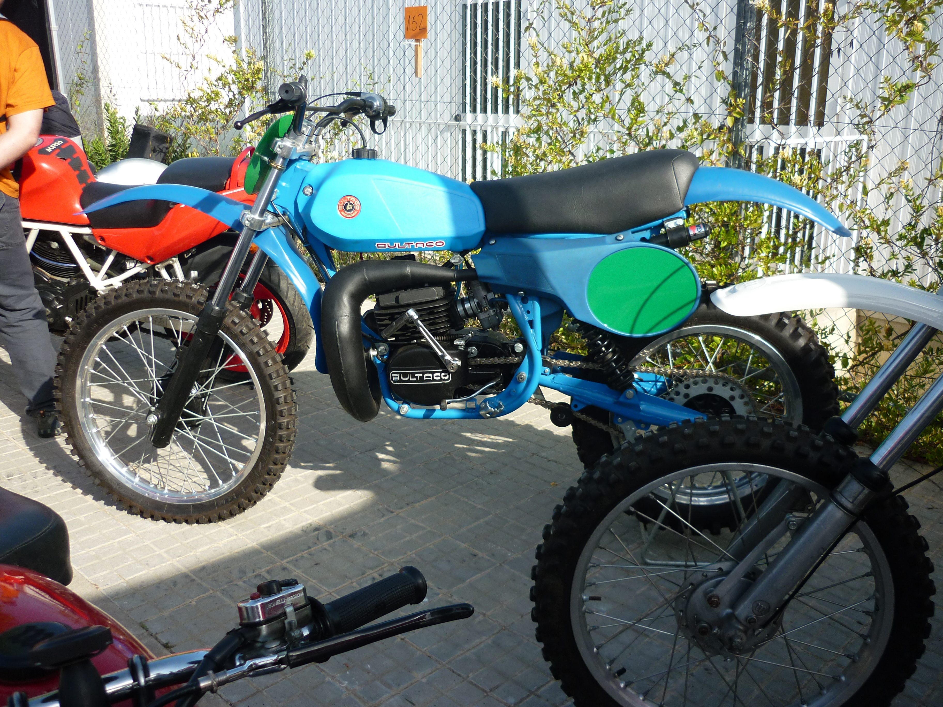 Bultaco Pursang MK12 250, 1978